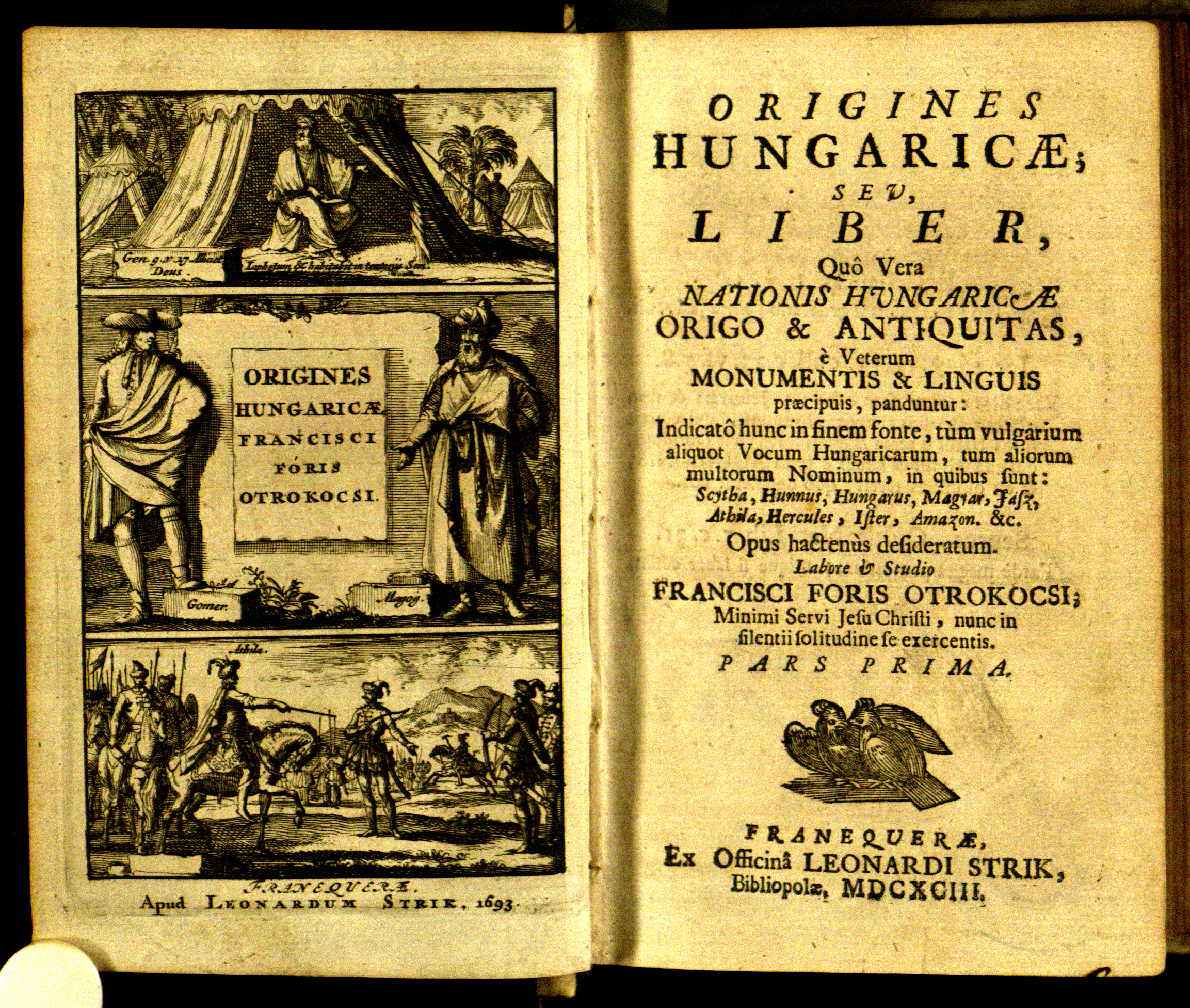 Scan from the original work (title page) - Otrokocsi Fóris, Ferenc (1693) Origines Hungaricae. Pars prima., Franeker: ex officina Leonardi Strik bibliopolae